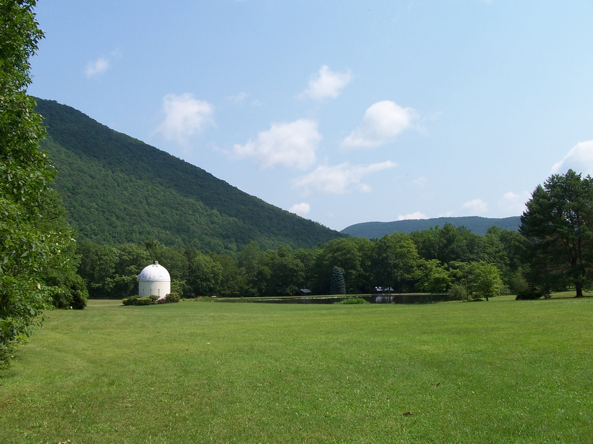 Susque Obsrvatory of in the distance.